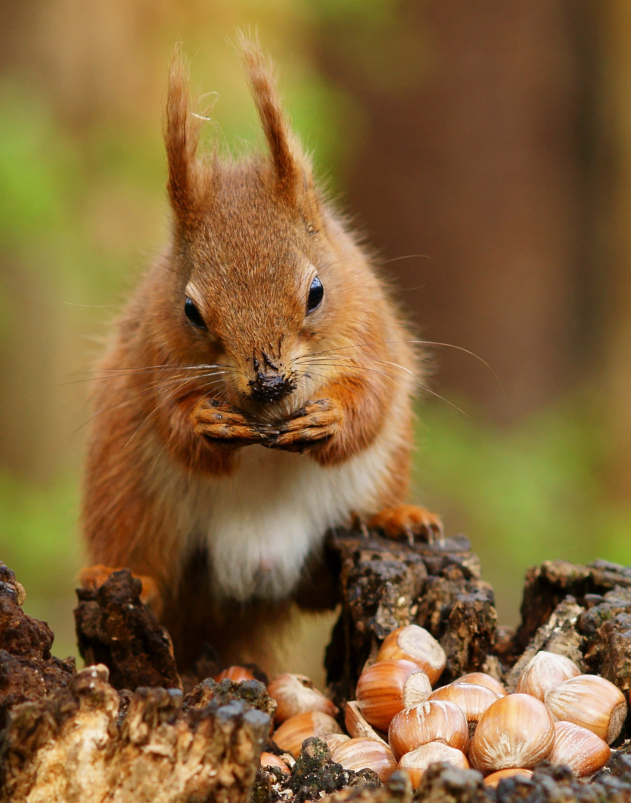 "Oh my ... how many do I have to eat?" Seen at the Alverstone Mead Nature Reserve.